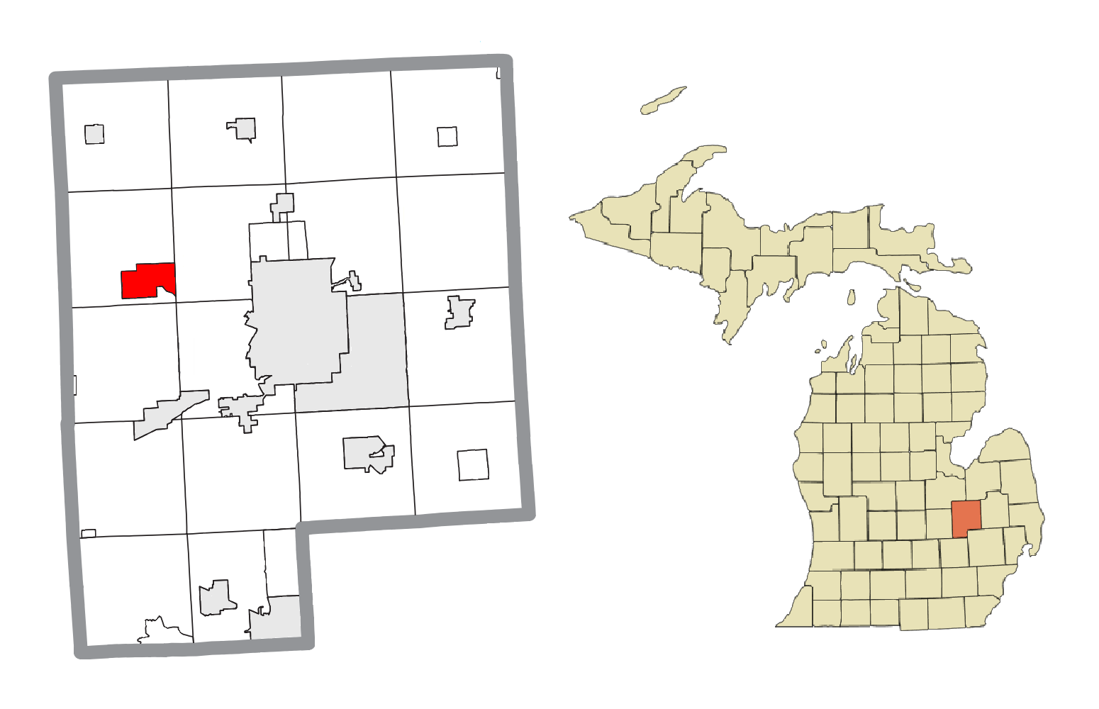 Flushing, MI